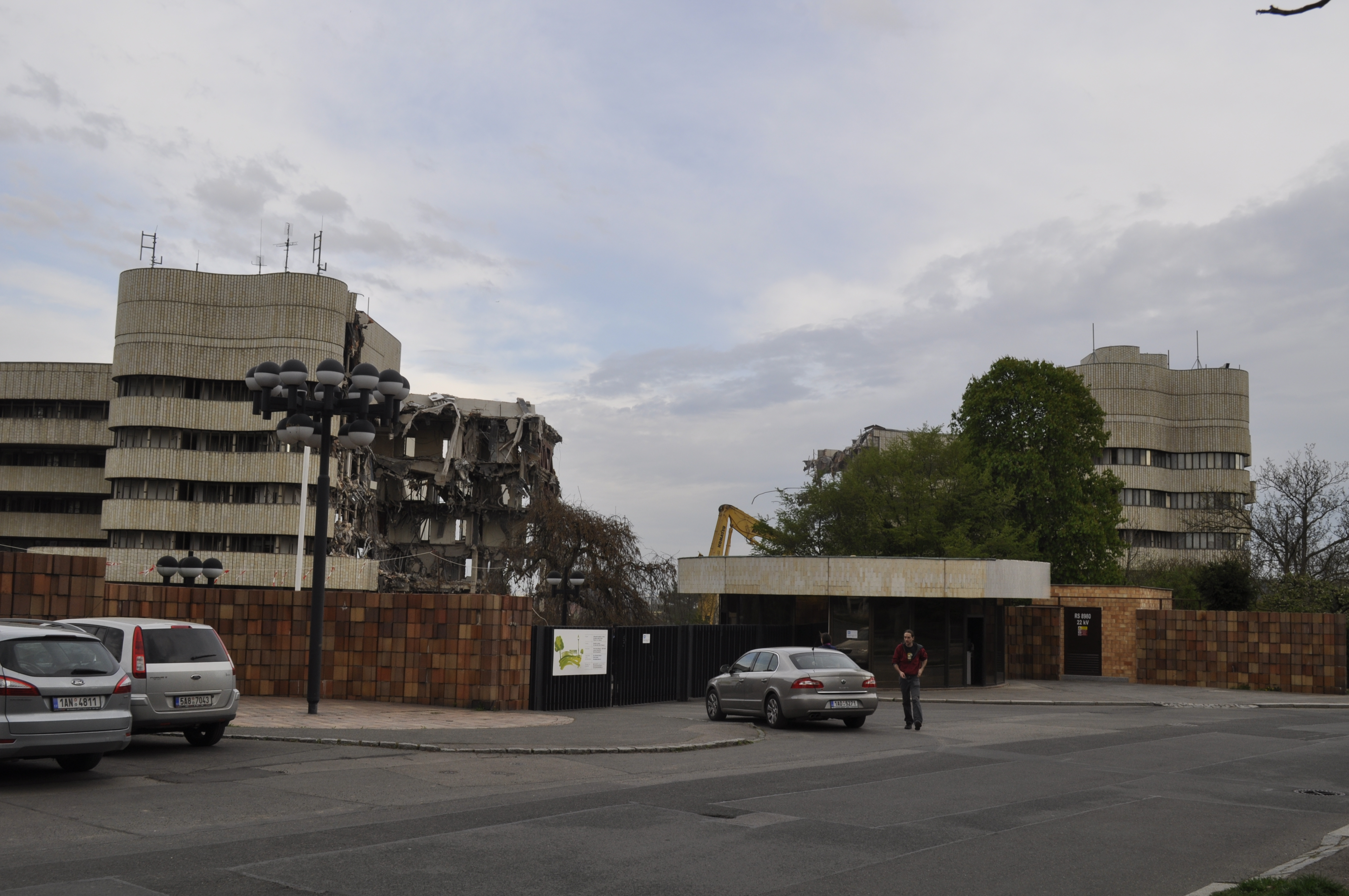 Current state of demolition, April 6, 2014